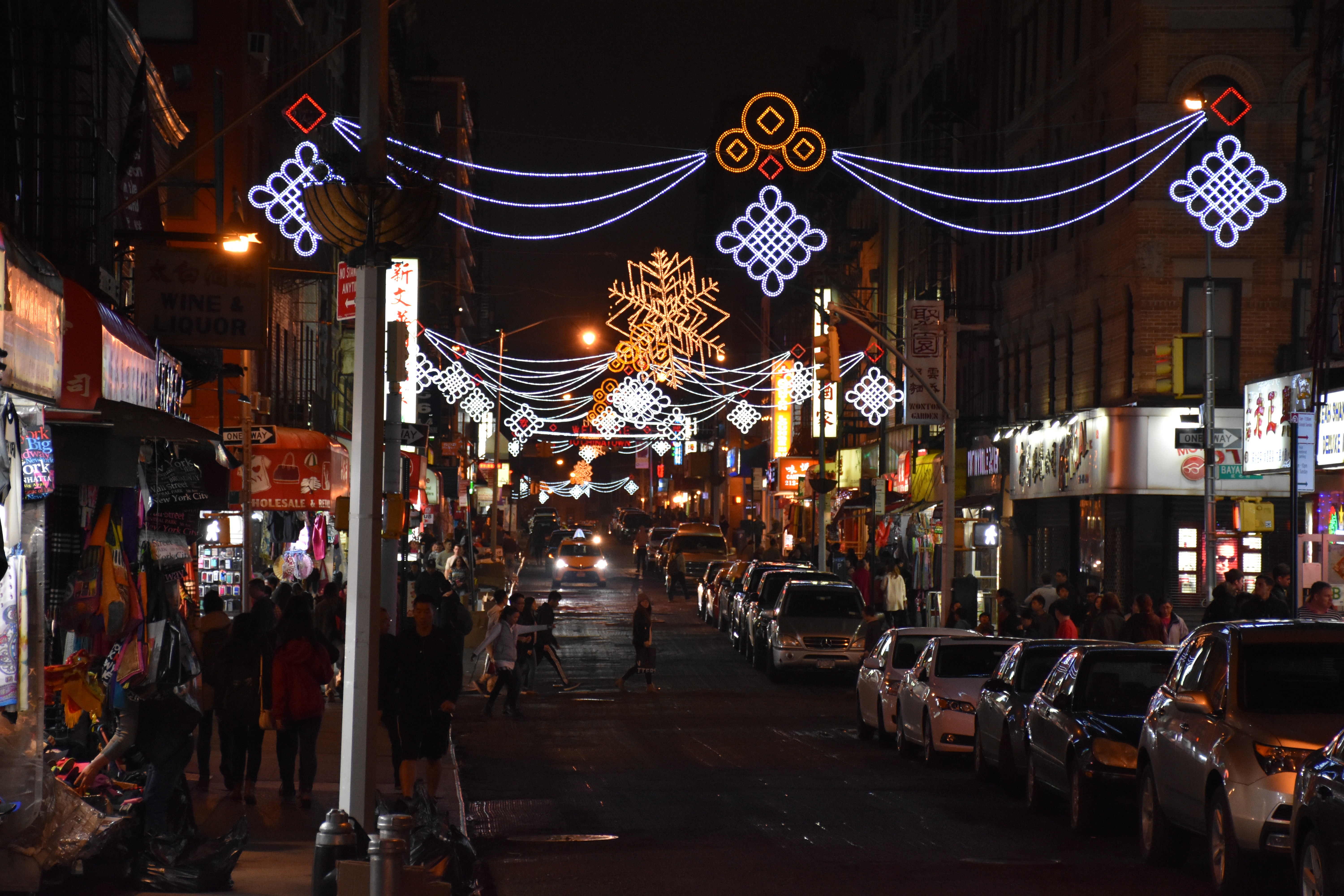 Looking north on Mott Street in Chinatown, Manhattan.